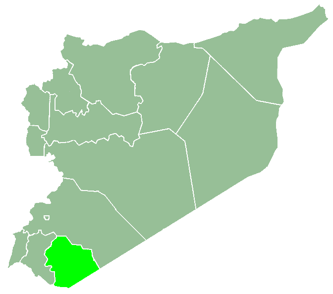 Based on Syrnumbered.PNG by User:Yuber under GFDL